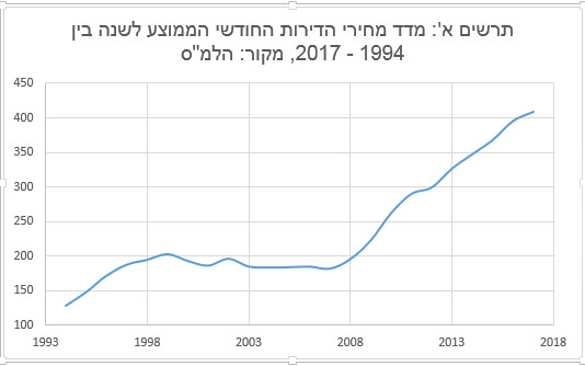 The average monthly house price index for the year 1994-2017